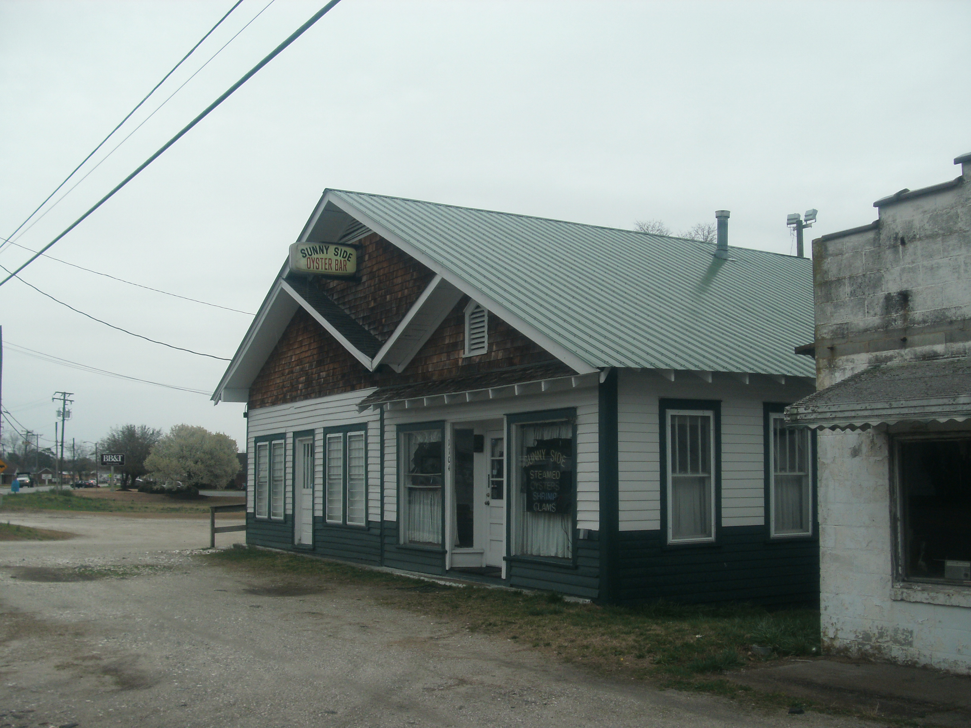 Williamston, North Carolina, March, 2015 GEDSC DIGITAL CAMERA